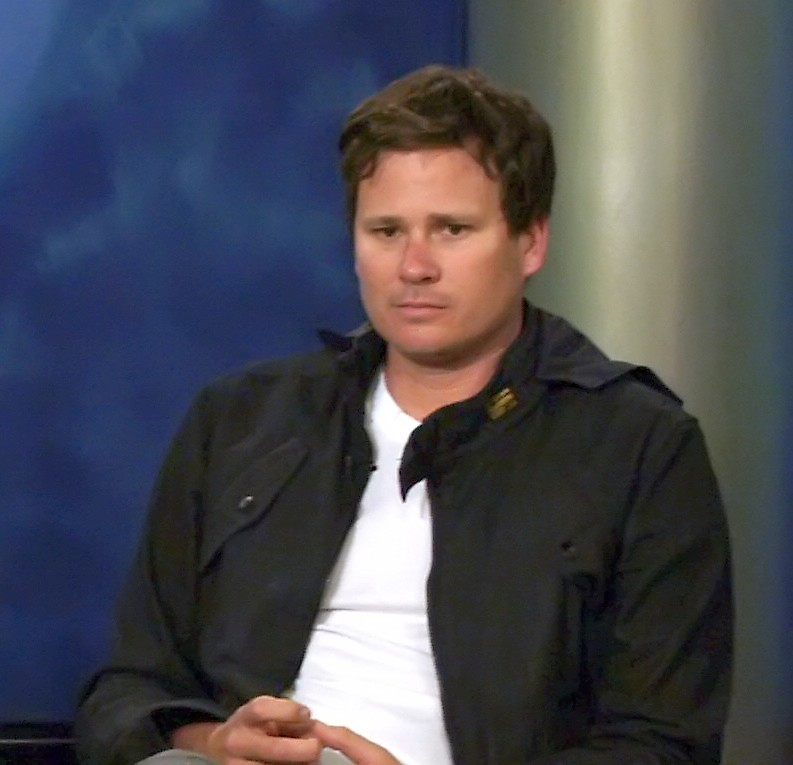 Angels & Airwaves' Tom DeLonge in San Diego By PhilKonstantin